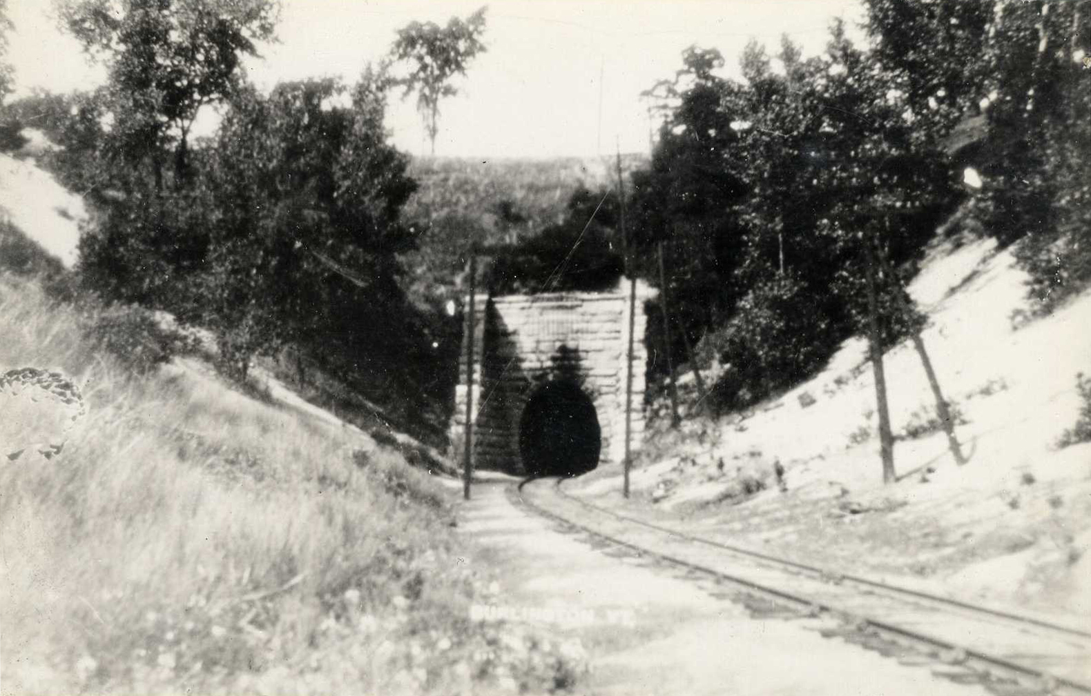 Face of the Burlington Rail Tunnel, likely shot in the late 1800's